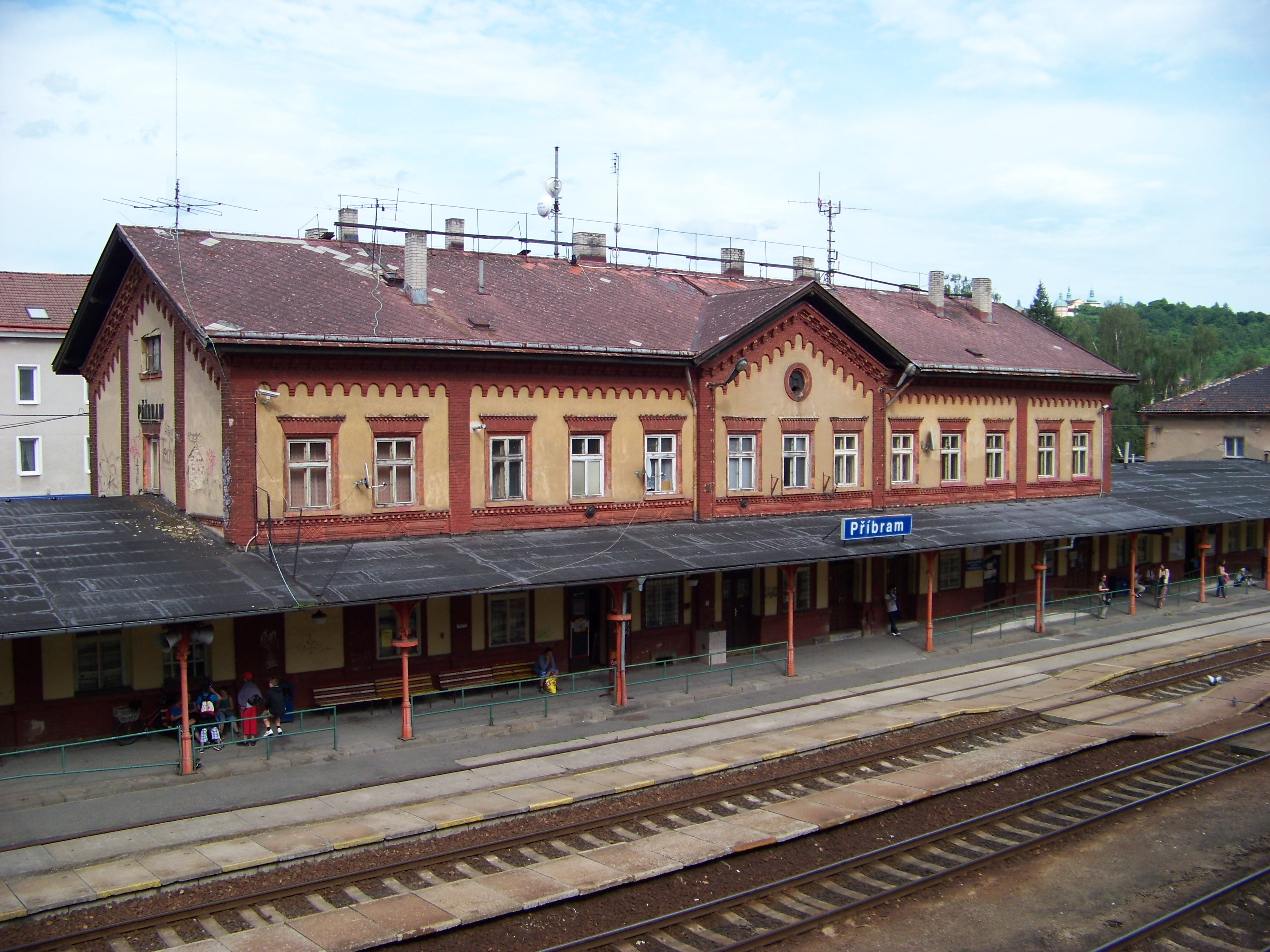 Příbram IV, Příbram District, Central Bohemian Region, the Czech Republic. A train station. - OpenStreetMap(Info)